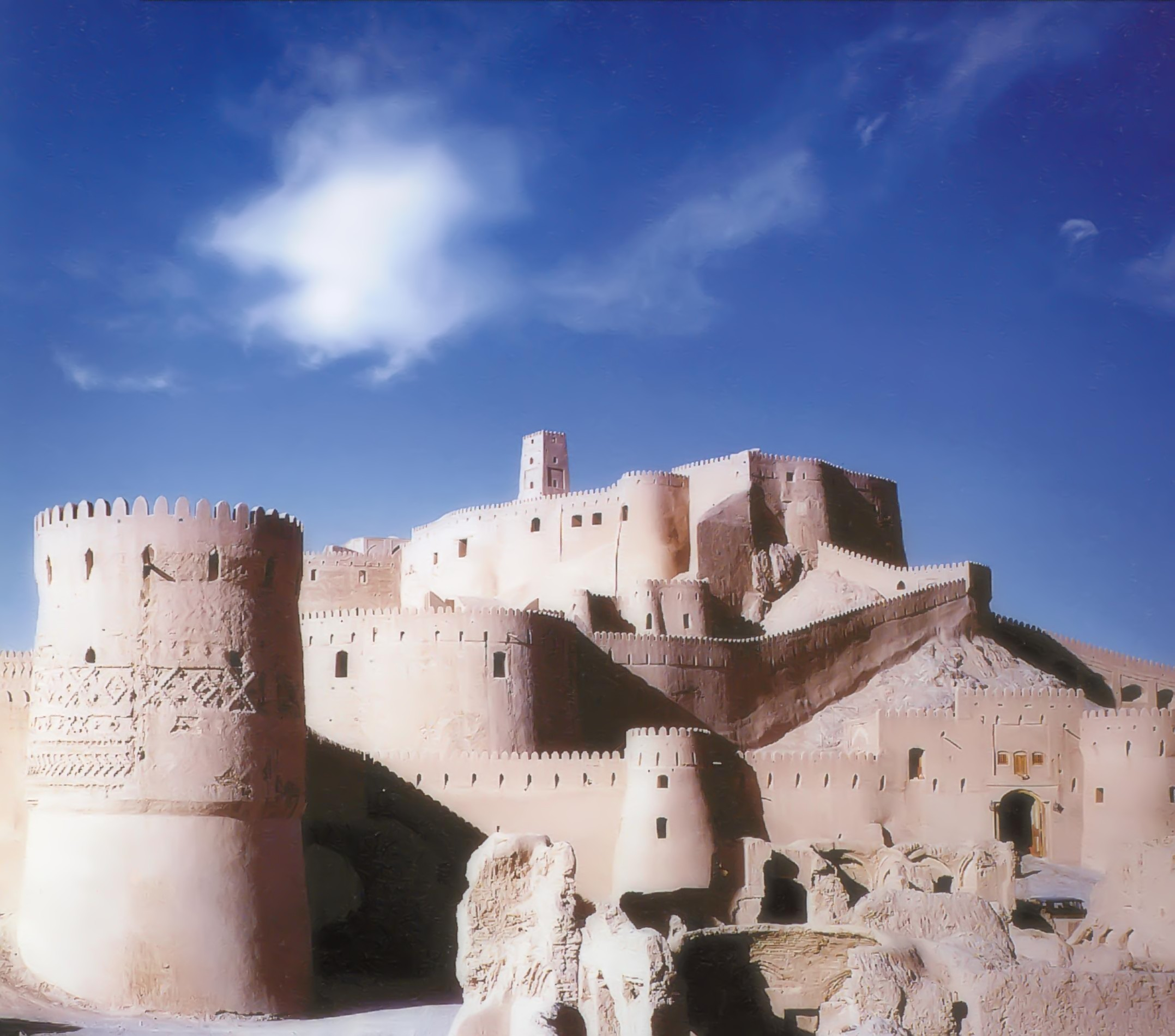 Arge Bam, Iran. I took the photo myself.